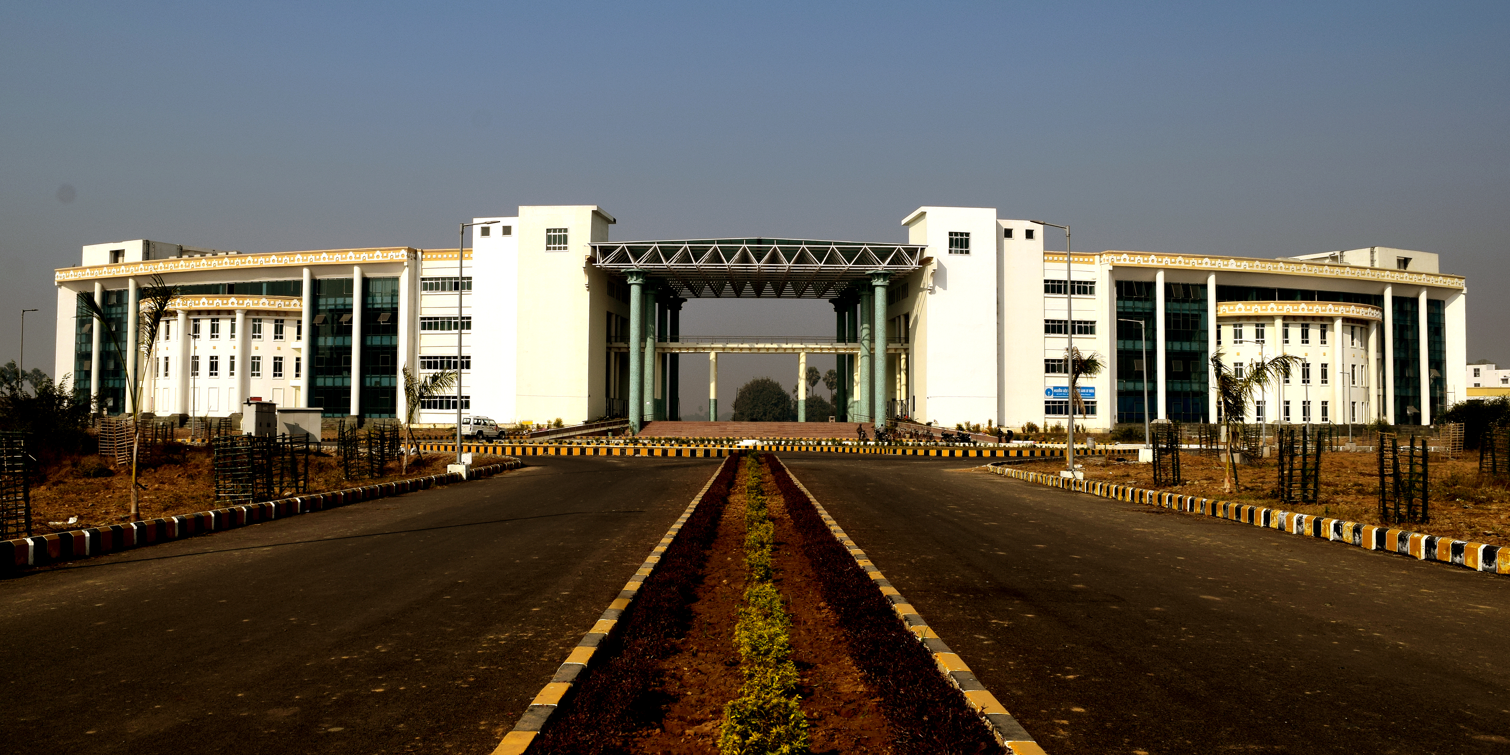 Front view of administrative building of IIT Patna